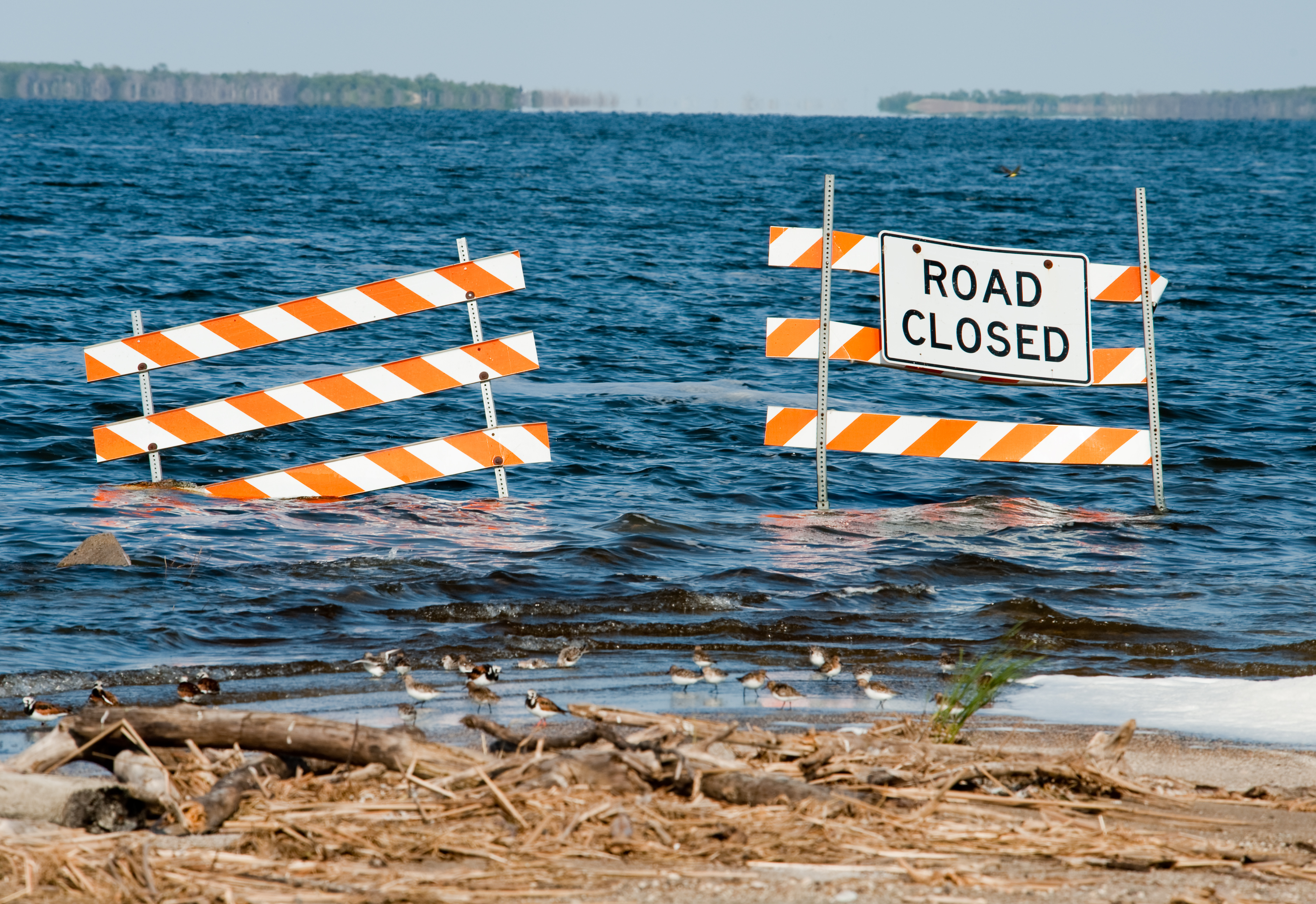 Devil's Lake, ND, June 5, 2009 -- A road is covered with water from Spirit Lake. The saltwater lake has been steadily rising for the last several years, threatening homes and businesses in the area. Photograph by Samir Valeja/FEMA